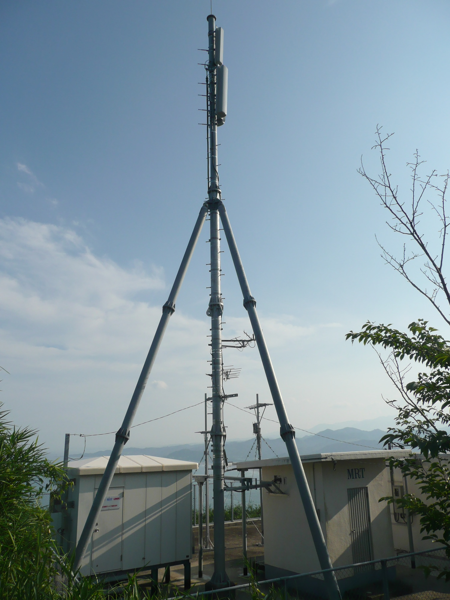 Hyuga Digital TV Repeater (NHK,MRT,UMK - Hyuga City, Miyazaki, Japan)